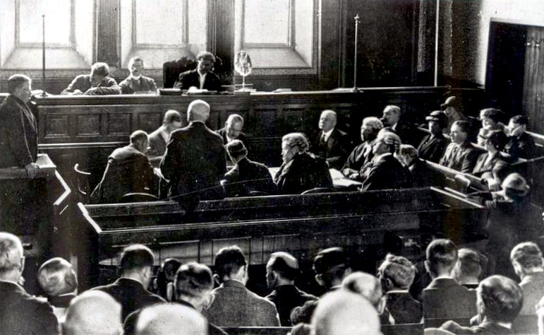 Loch Maree Poisoning Tragedy inquiry Sept. 1922